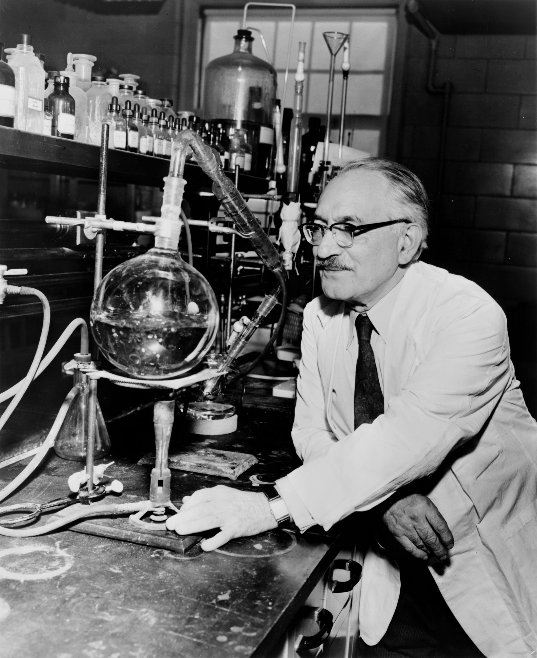 Dr. Selman Waksman, half-length portrait, facing left at work in the laboratory / World Telegram & Sun photo by Roger Higgins.